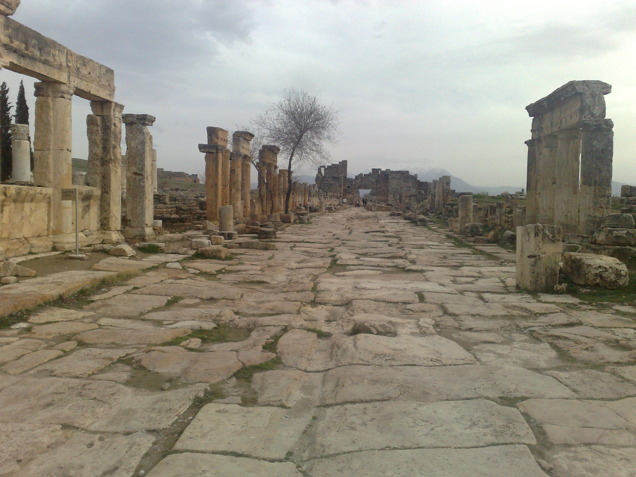 Main Street